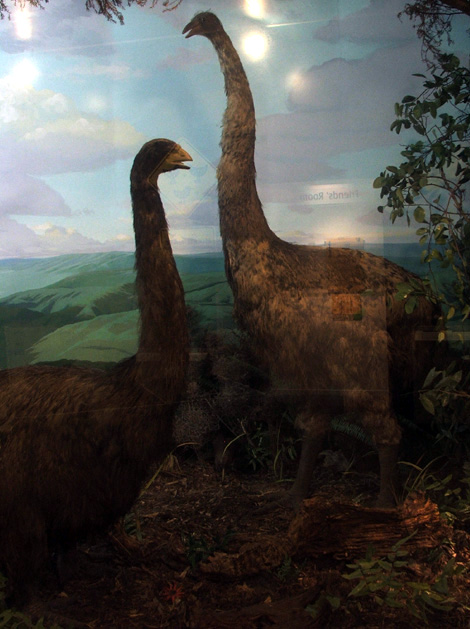 Reconstruction of a Moa, Otago Museum, Dunedin.